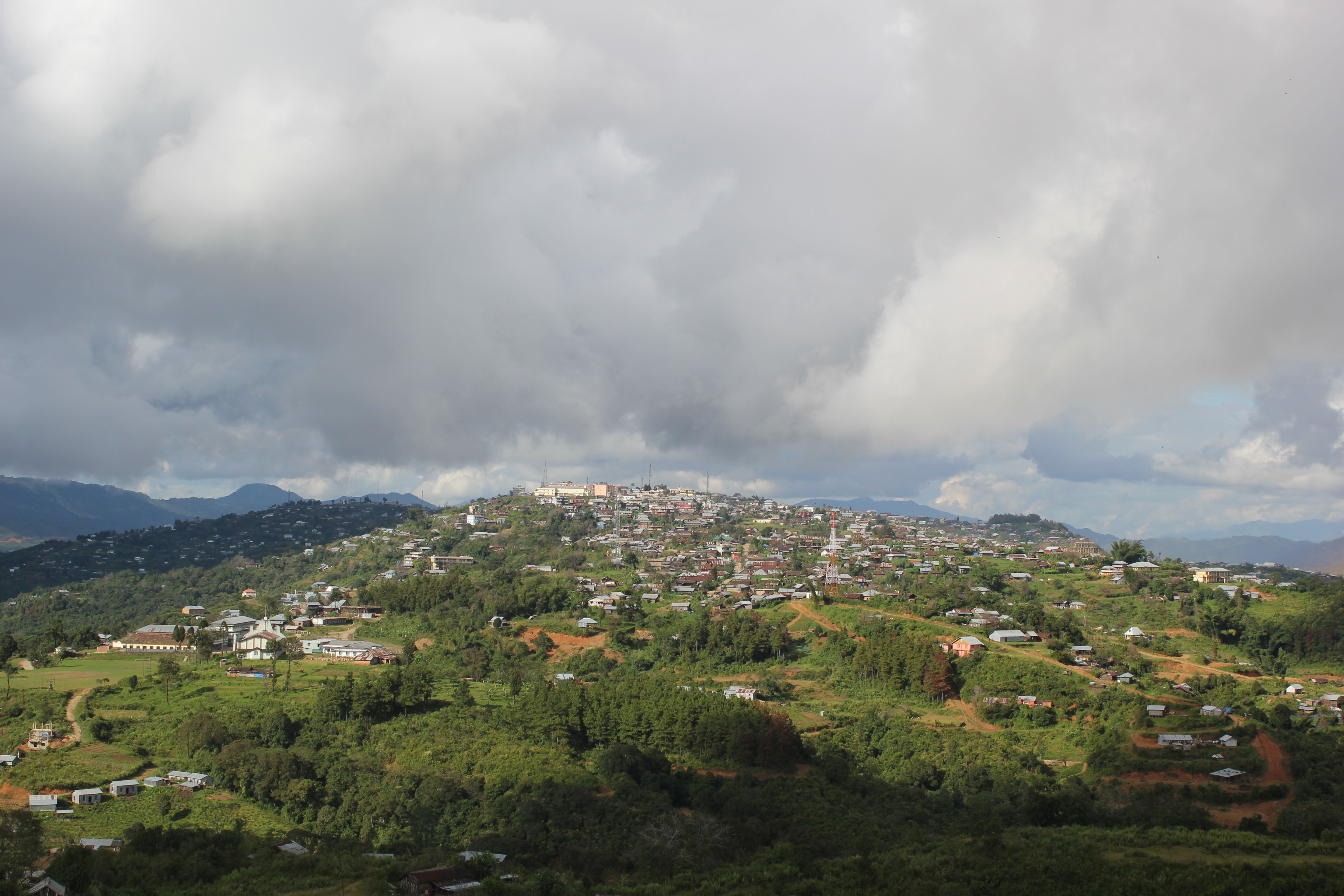 A View of Ukhrul Town from its southern edge